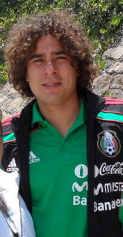 A photo of the mexican national team goalkeeper Francisco Guillermo Ochoa